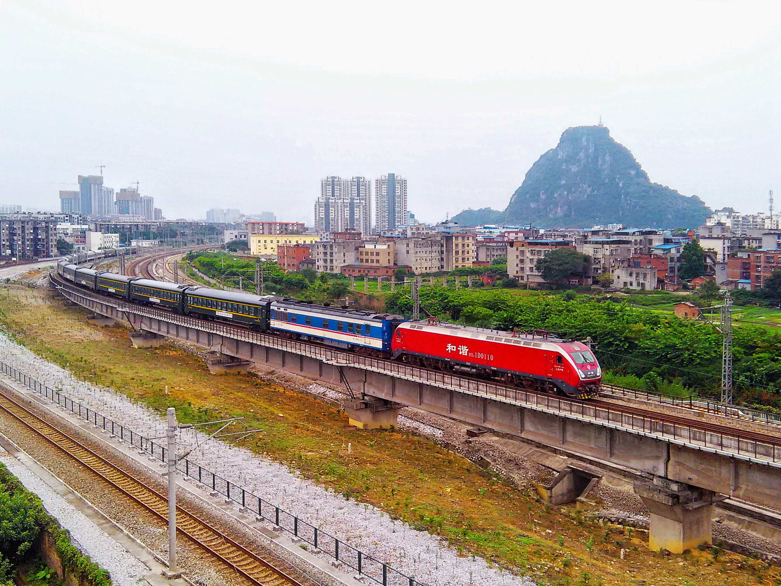 China Railways HXD1D 0110 in Liuzhou.